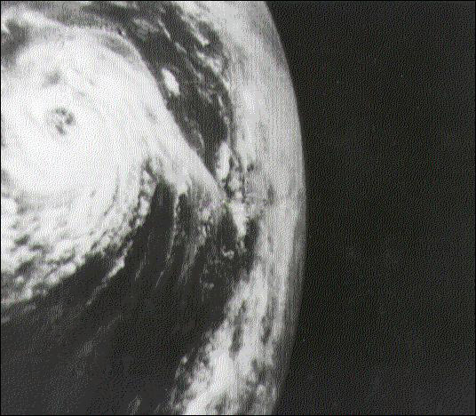 Hurricane Ginny viewed from Space Original work